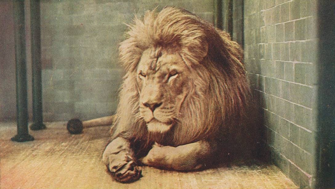 Lion, "Sultan" caged at the New York Zoological Park (Bronx Zoo)